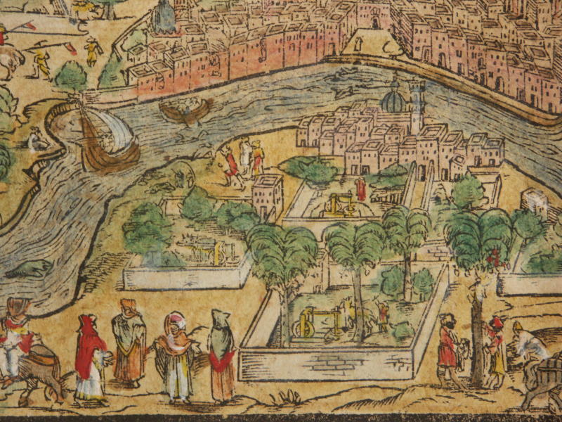 Münster's towns-- some examples from different editions (many with modern hand-coloring)